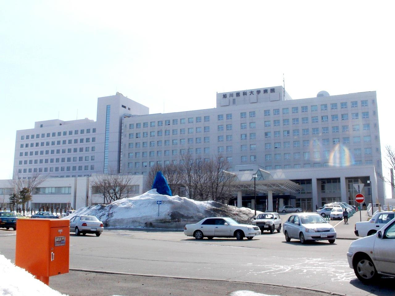 Asahikawa medical University Hospital